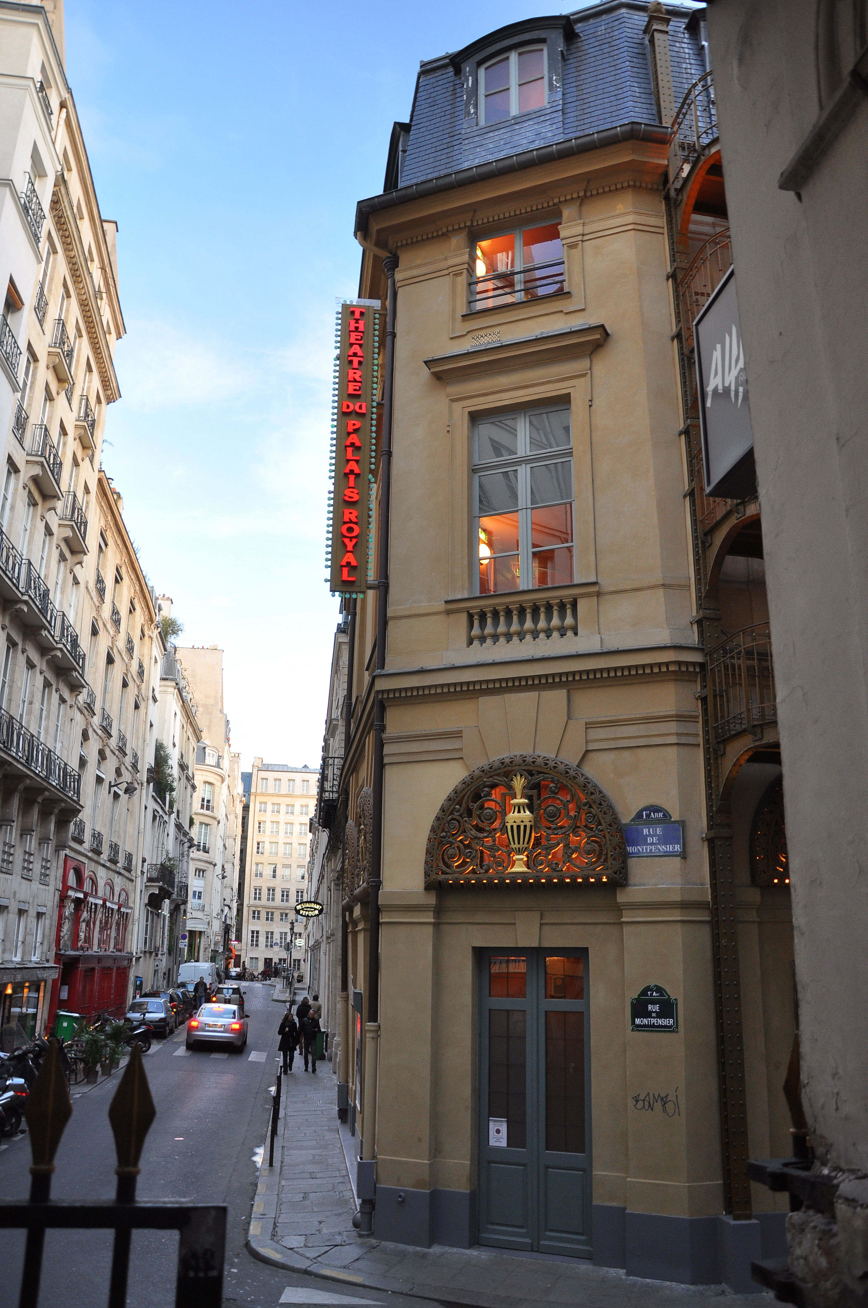 The theater Théâtre du Palais-Royal in Paris 1st arrondissement, France. This building is en partie classé, en partie inscrit au titre des Monuments Historiques.